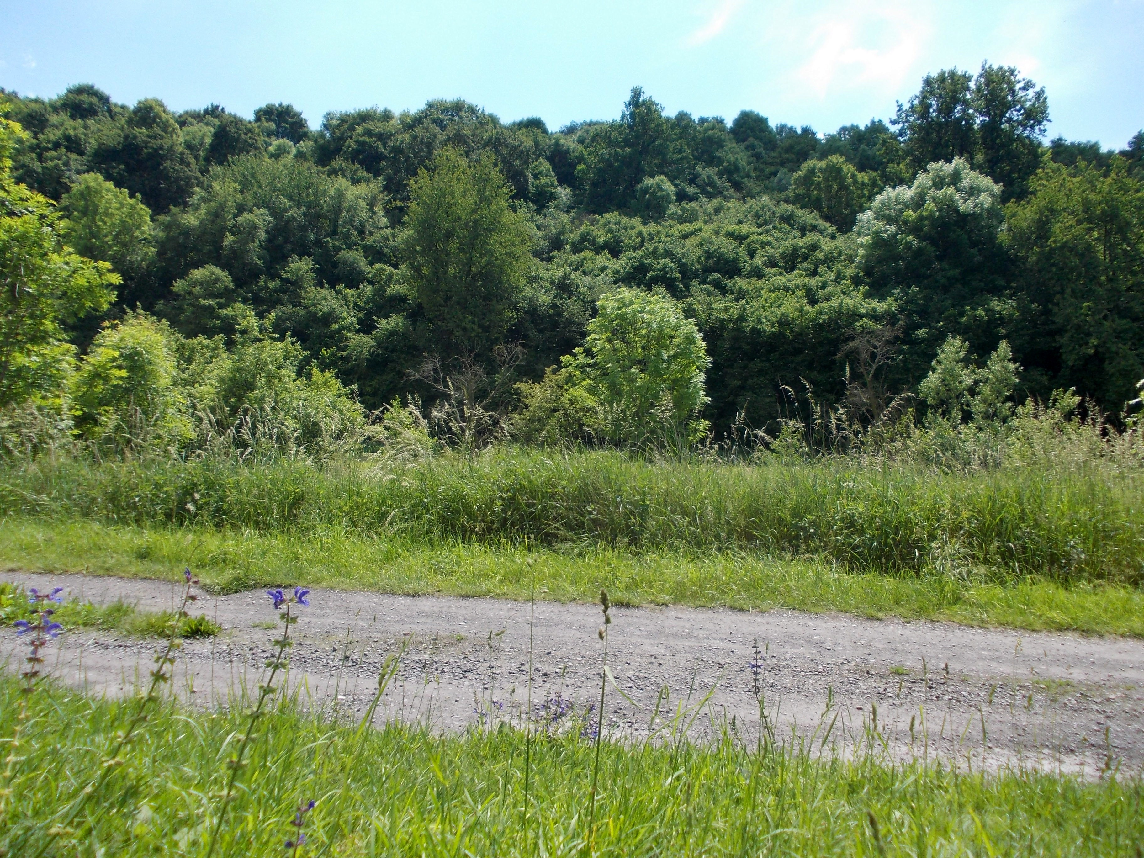 Kuckenburger Hagen nature reserve (Obhausen, district: Saalekreis, Saxony-Anhalt)